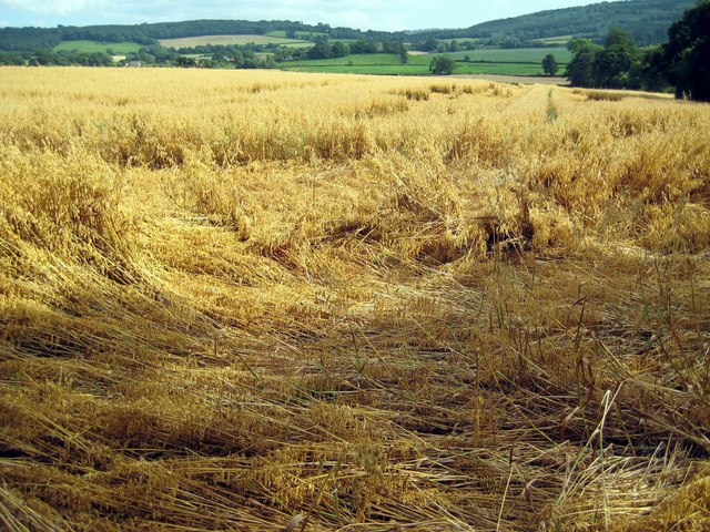 Storm damaged Oats. Wind and heavy rain have flattened some of these oats. The combine harvester will pick most of them up at harvest but the grain will not have matured properly and so a certain percentage of the crop will be lost, see also 903306.